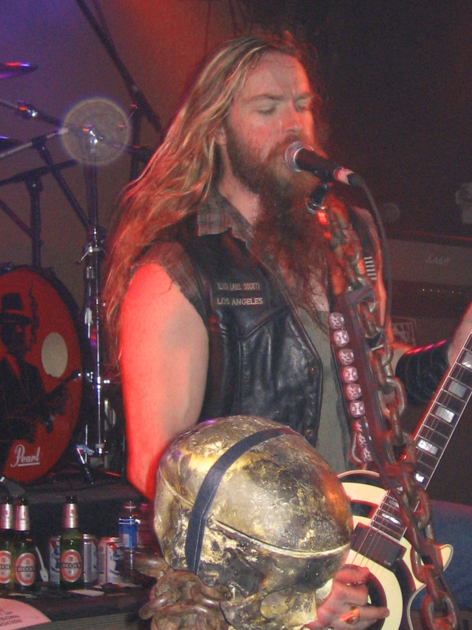 Zakk Wylde live (Recorded at Jaxx Nightclub in Springfield, VA)